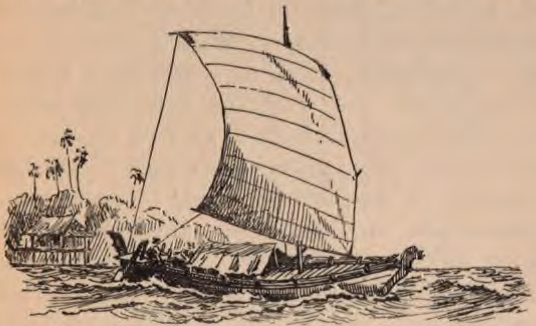 A sketch from Mast and Sail from Europe and Asia, about a kakap Jeram, a fishing boat of Jeram, Selangor, Malaysia.